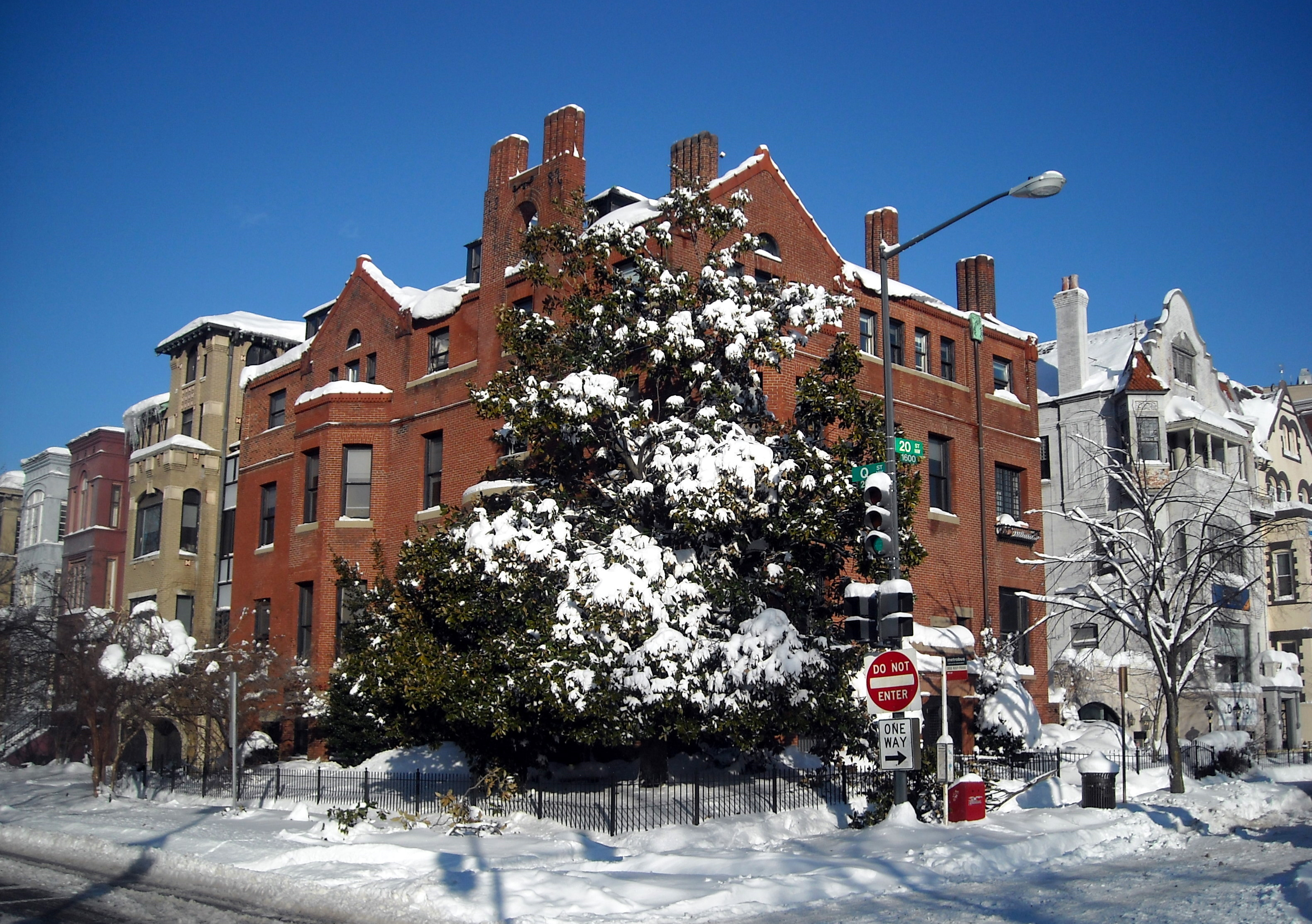 The northwest corner of 20th and Q Streets, N.W., in the Dupont Circle neighborhood of Washington, D.C., following the Second North American blizzard of 2010. The headquarters for Public Citizen, a left-wing advocacy group founded by Ralph Nader, is the building on the corner, 1600 20th Street, N.W. Built in 1885 as the residence of George Alexander McIlhenny, president of the Washington Gas-Light Company, the brick, four-story, Richardsonian Romanesque building previously served as headquarters for the Army and Navy Bulletin, predecessor to the Navy Times, the American Home Economics Association, now known as the American Association of Family and Consumer Sciences, and the Institute for Policy Studies. The building is a contributing property to the Dupont Circle Historic District, listed on the National Register of Historic Places in 1978, and has a 2010 property value of $5,050,400.